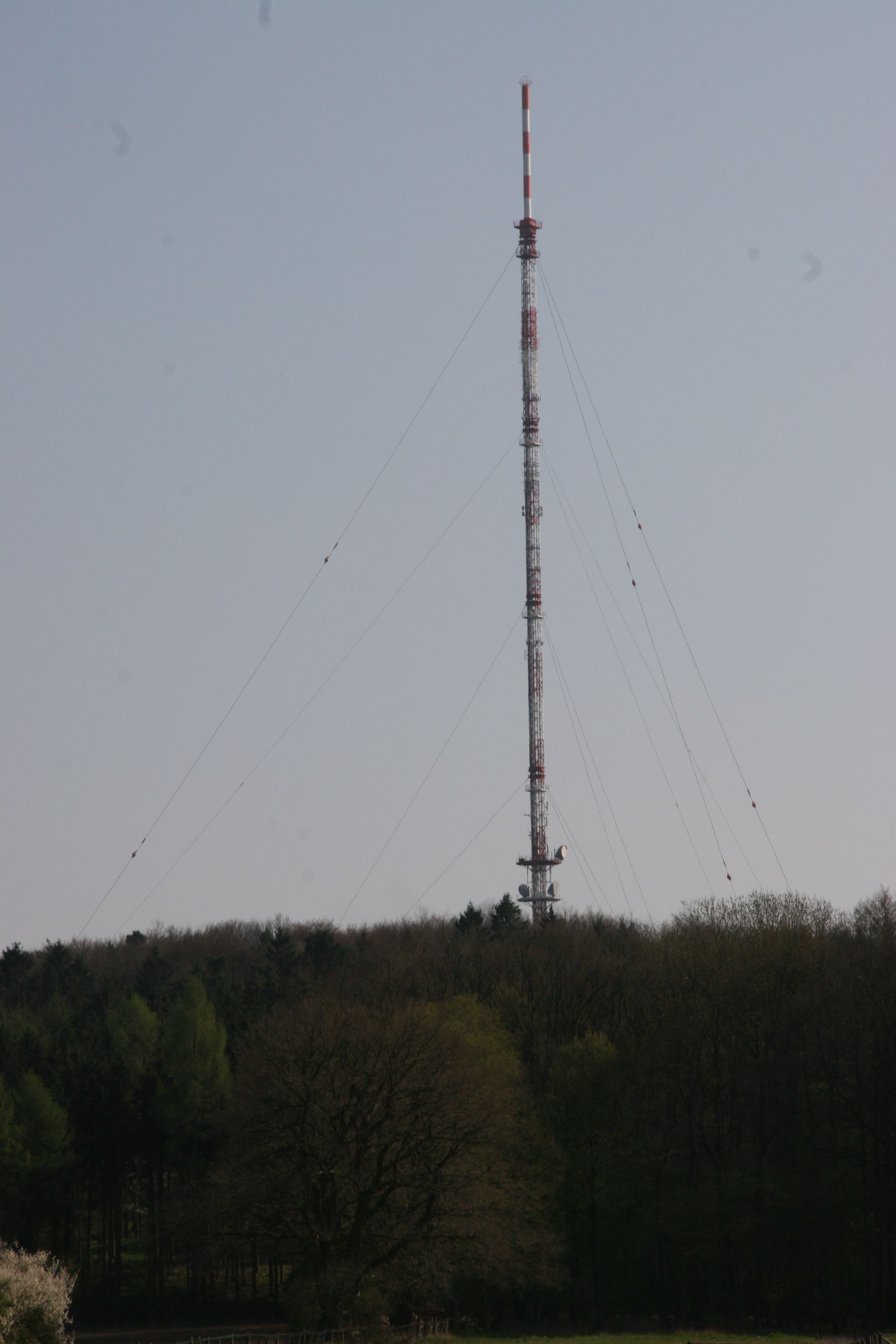 Bramsche-Schleptrup: radio tower